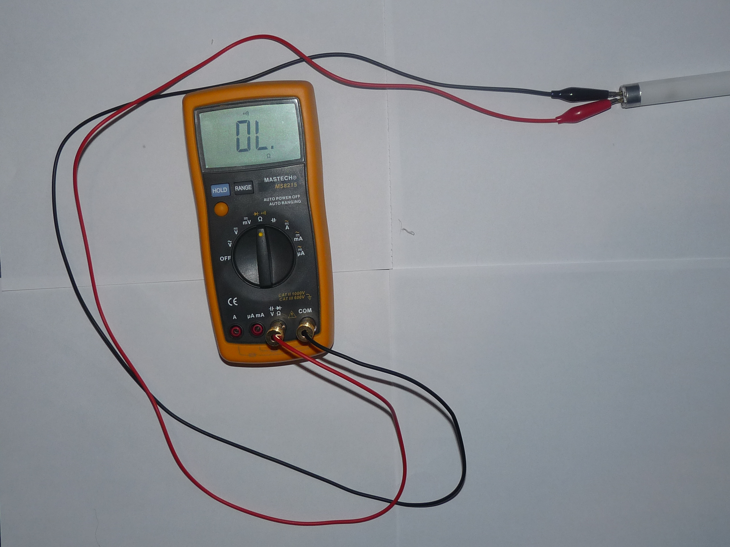 Filament checking in fluorescent bulb. Unlimited high resistance says, that filament is fused. 2nd sign is black stain near filament.